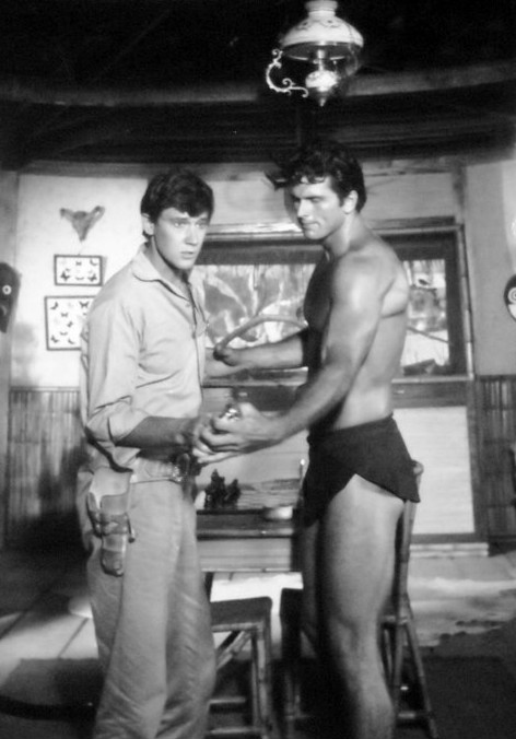 Photo from the television program Tarzan. In photo are Ron Ely (Tarzan) and Andrew Prine.